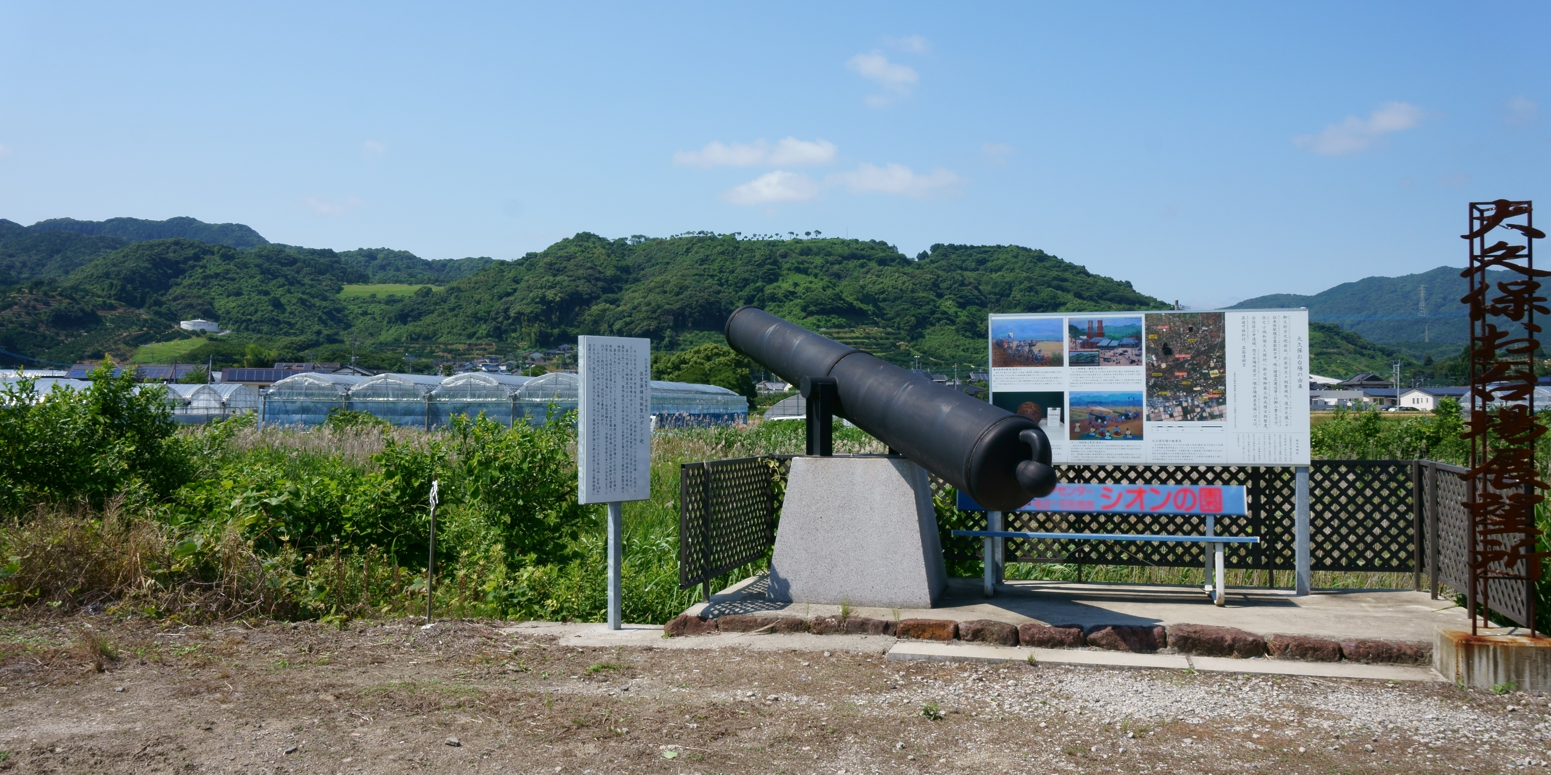 Monuments of Okubo Cannon testing site of Saga Domain in Yamato-cho Kawakami, Saga city, Saga prefecture.